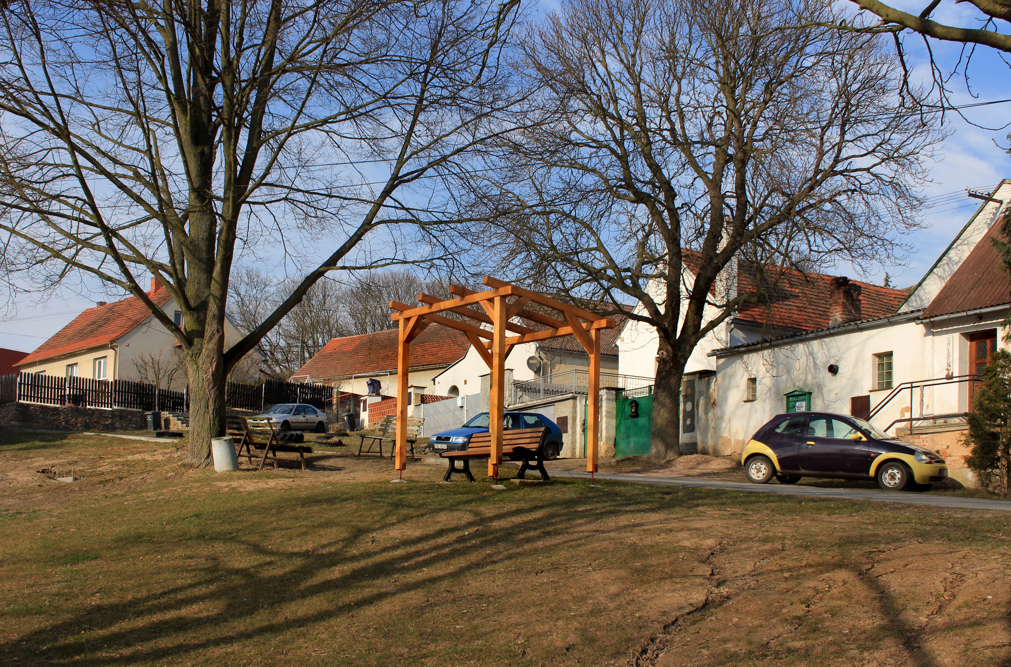 East part of Rochlov, Czech Republic.